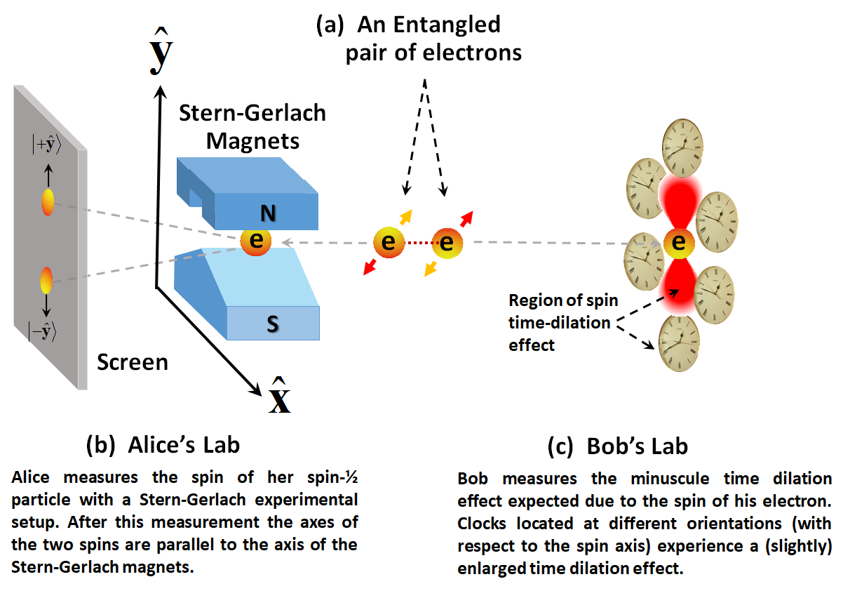 A spacetime version of the EPR experiment